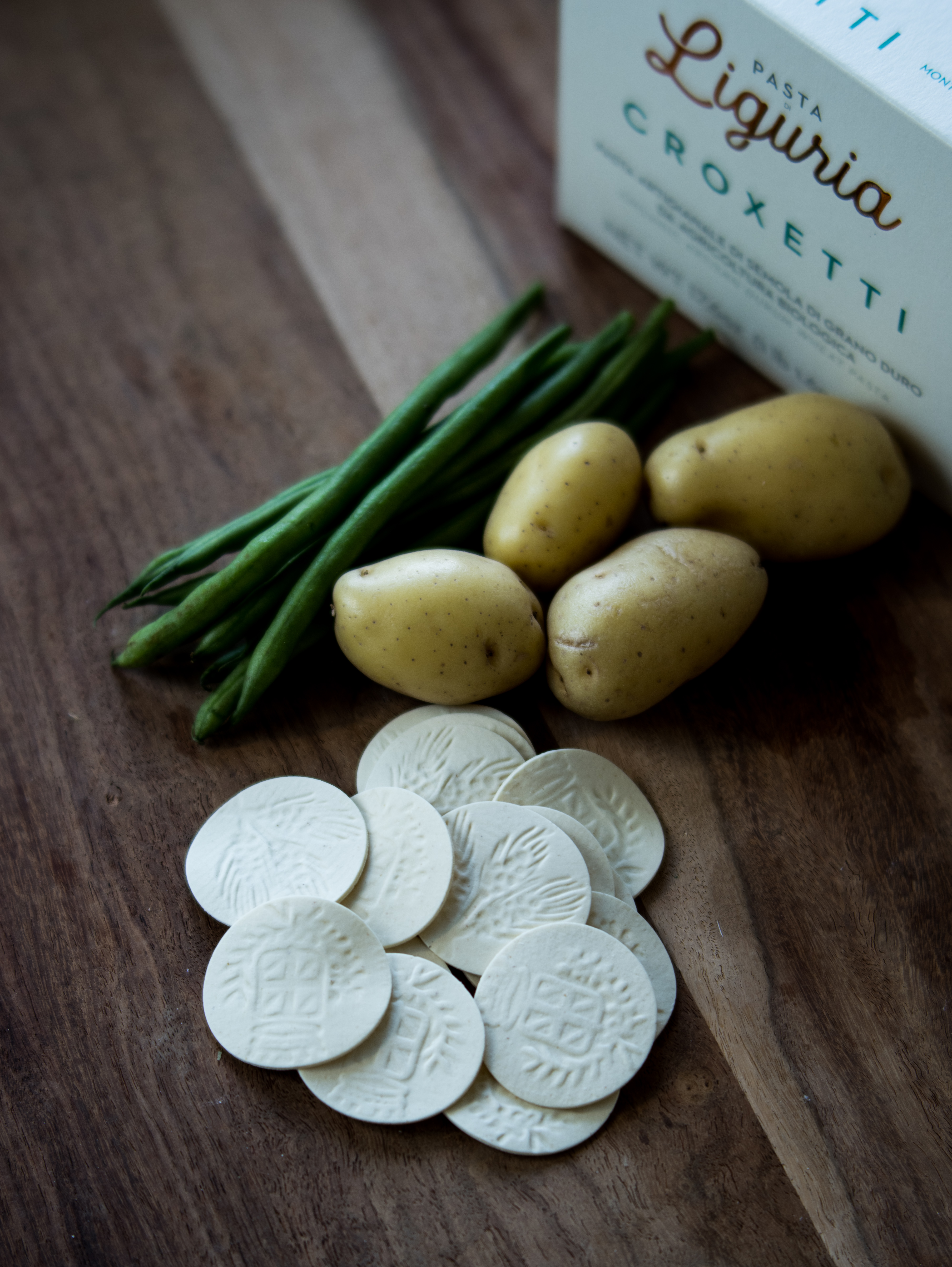 ligurian pasta croxetti/corzetti with traditional ingredients potatoes and green beans